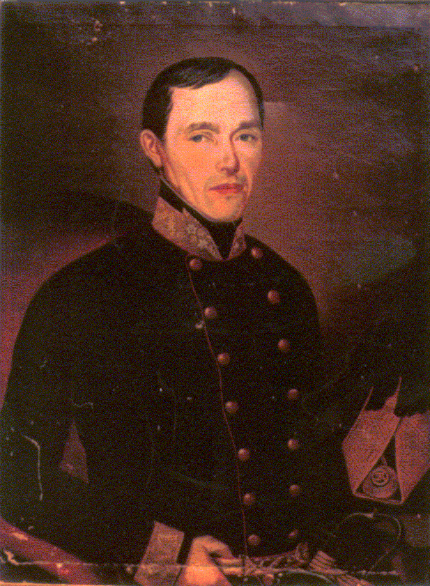 Aolf Leopold Karl Stadler-Prohaska von Guelfenburg